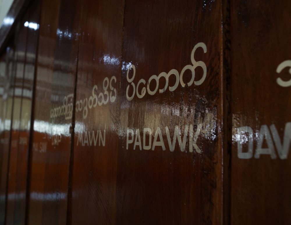 Padauk Wood displayed at rhe Kachin State Cultural Museum, Myitkyina, labelled in Burmese and Jinghpaw.